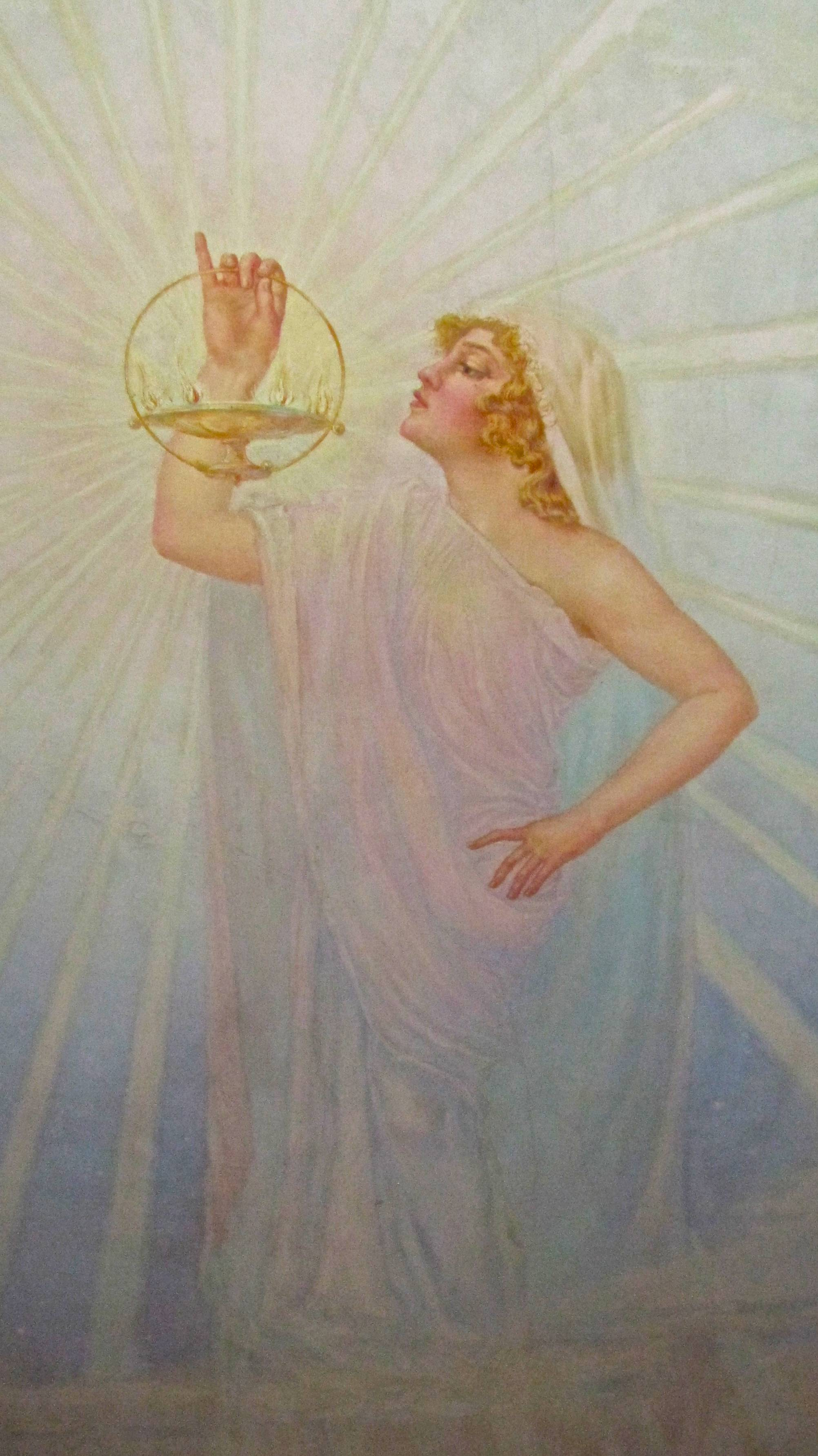 Painting by Guido Nincheri, South-West Bedroom, Oscar Dufresne House (Château Dufresne), 4040 Sherbrooke Street East, Montreal, Quebec, Canada.